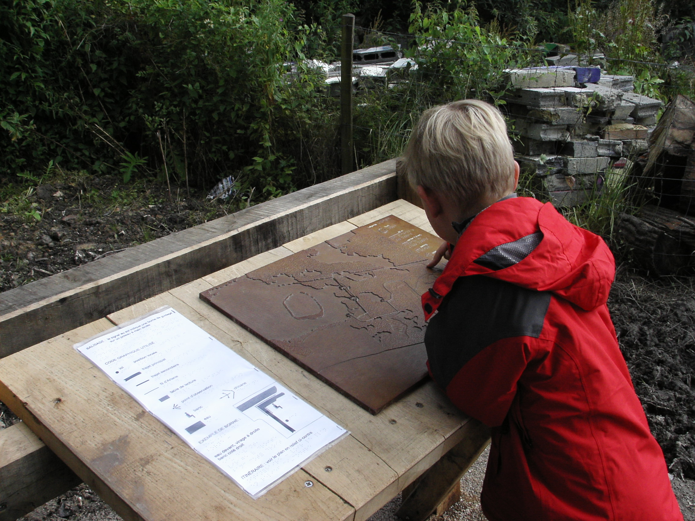 Cambrin Nature Reserve (north of France)